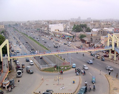 coz the other one came out so blurry :(